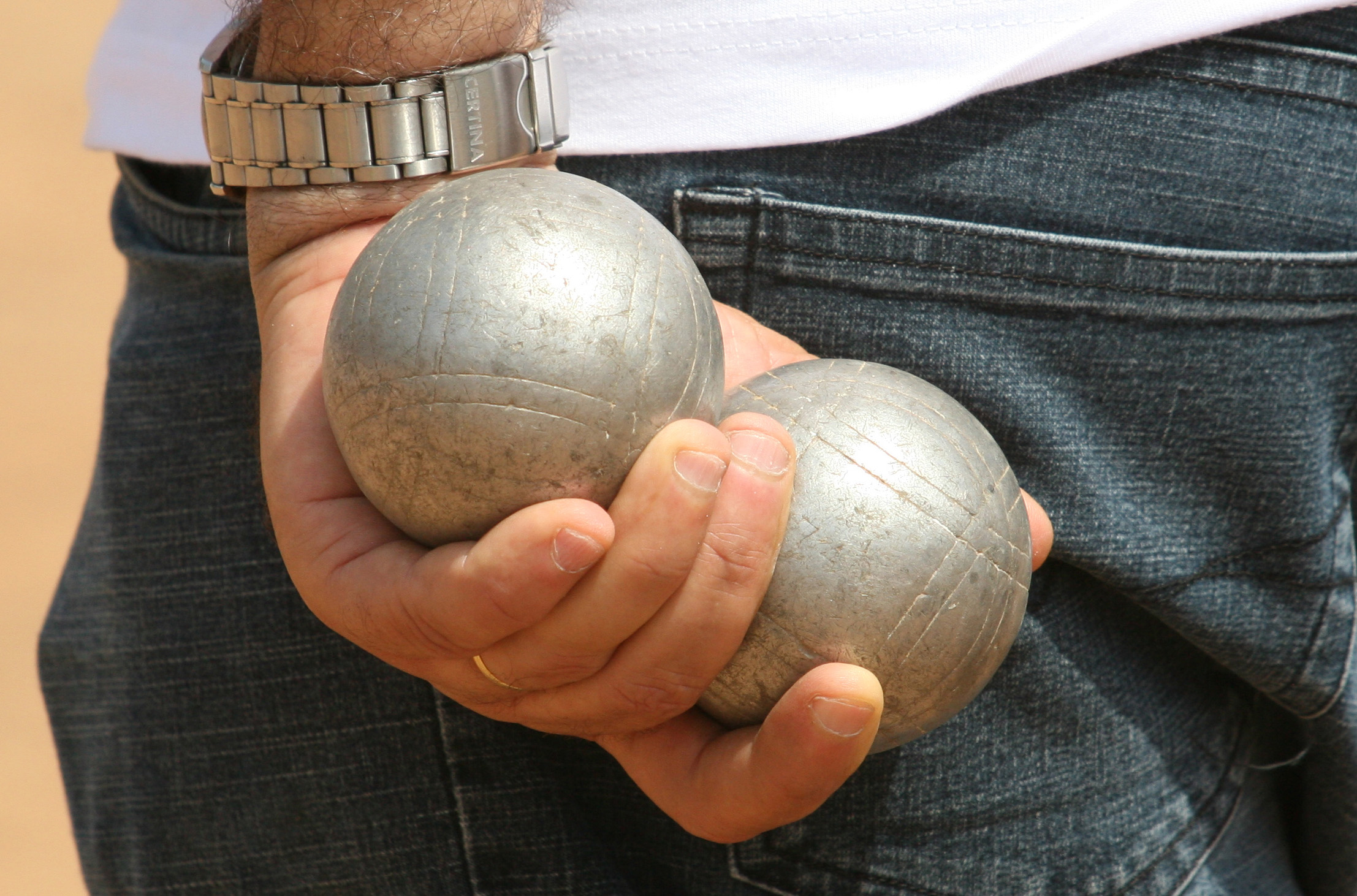 Two boules being held in one hand behind the Pétanque player's back.